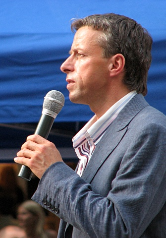 Pavel Bém speaking at a public meeting in Prague